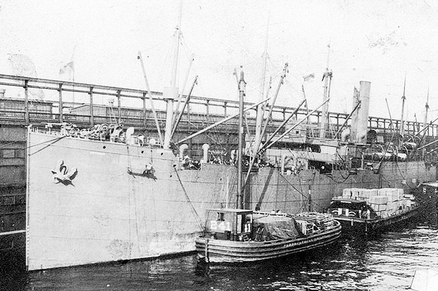 Photo #: NH 99270 USAT Artemis (U.S. Army Transport, 1917-1919) In port during or immediately after World War I. This ship served as USS Artemis (ID # 2187) in April-September 1919. The barge Pennsylvania Railroad # 241 is alongside Artemis' forward hold, with two other barges further aft. U.S. Naval Historical Center Photograph.